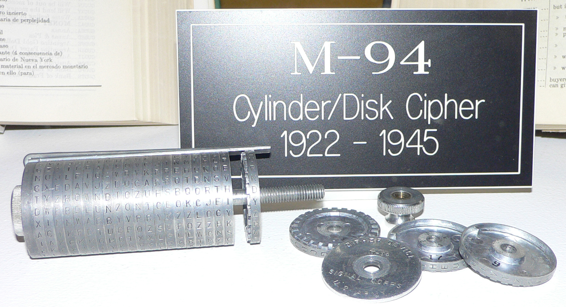 Pictures taken by myself at the US National Cryptologic Museum.